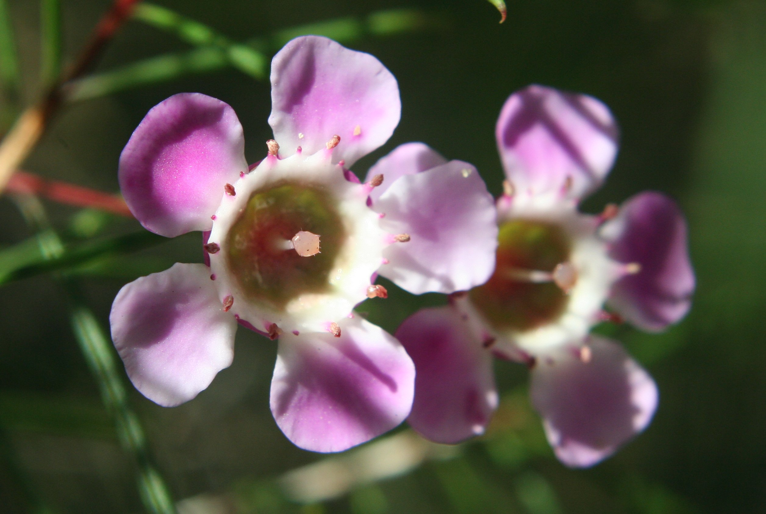 Close-up photo of the flower of Chamelaucium uncinatum